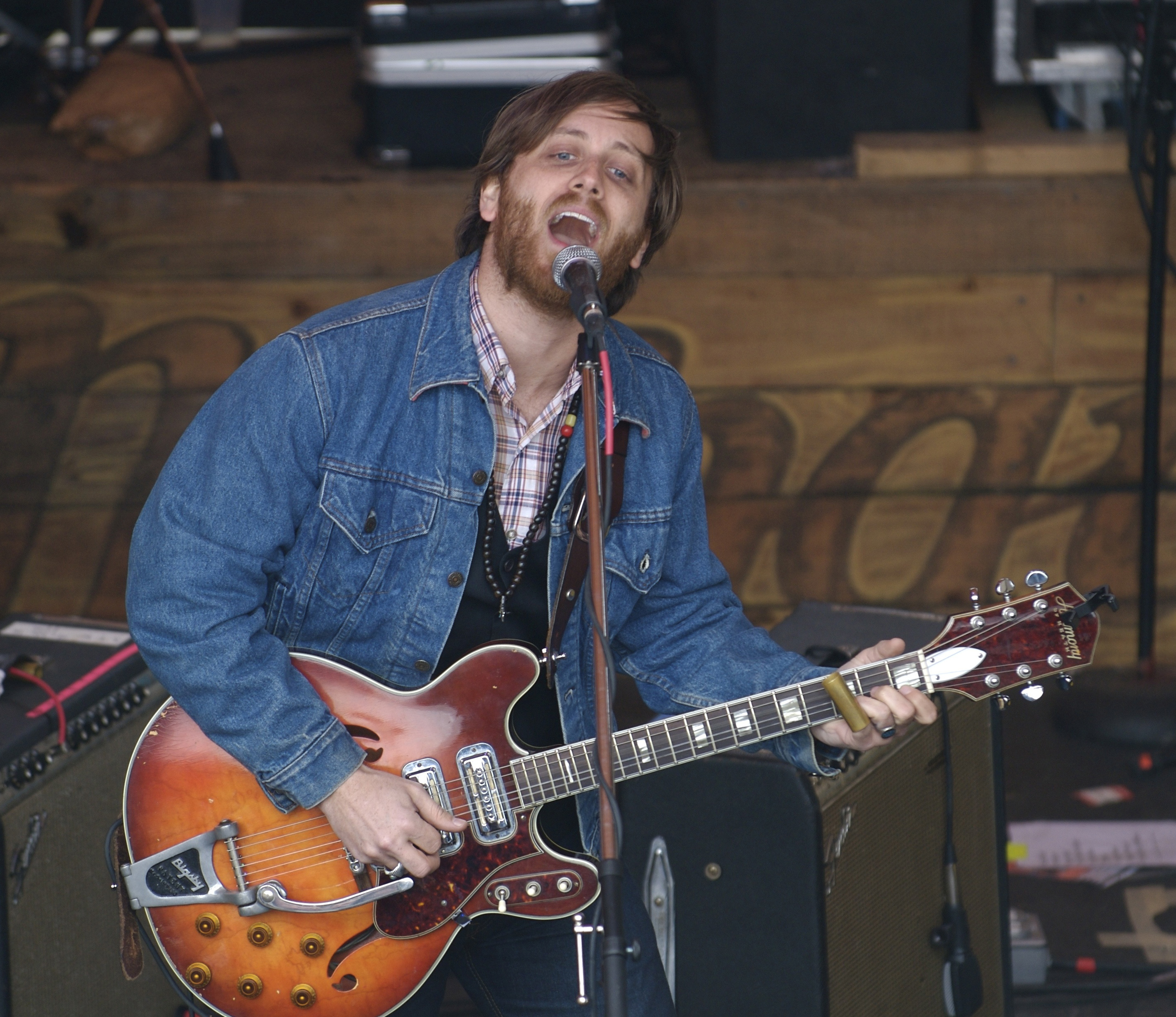 Dan Auerbach of The Black Keys, playing at SXSW in 2010